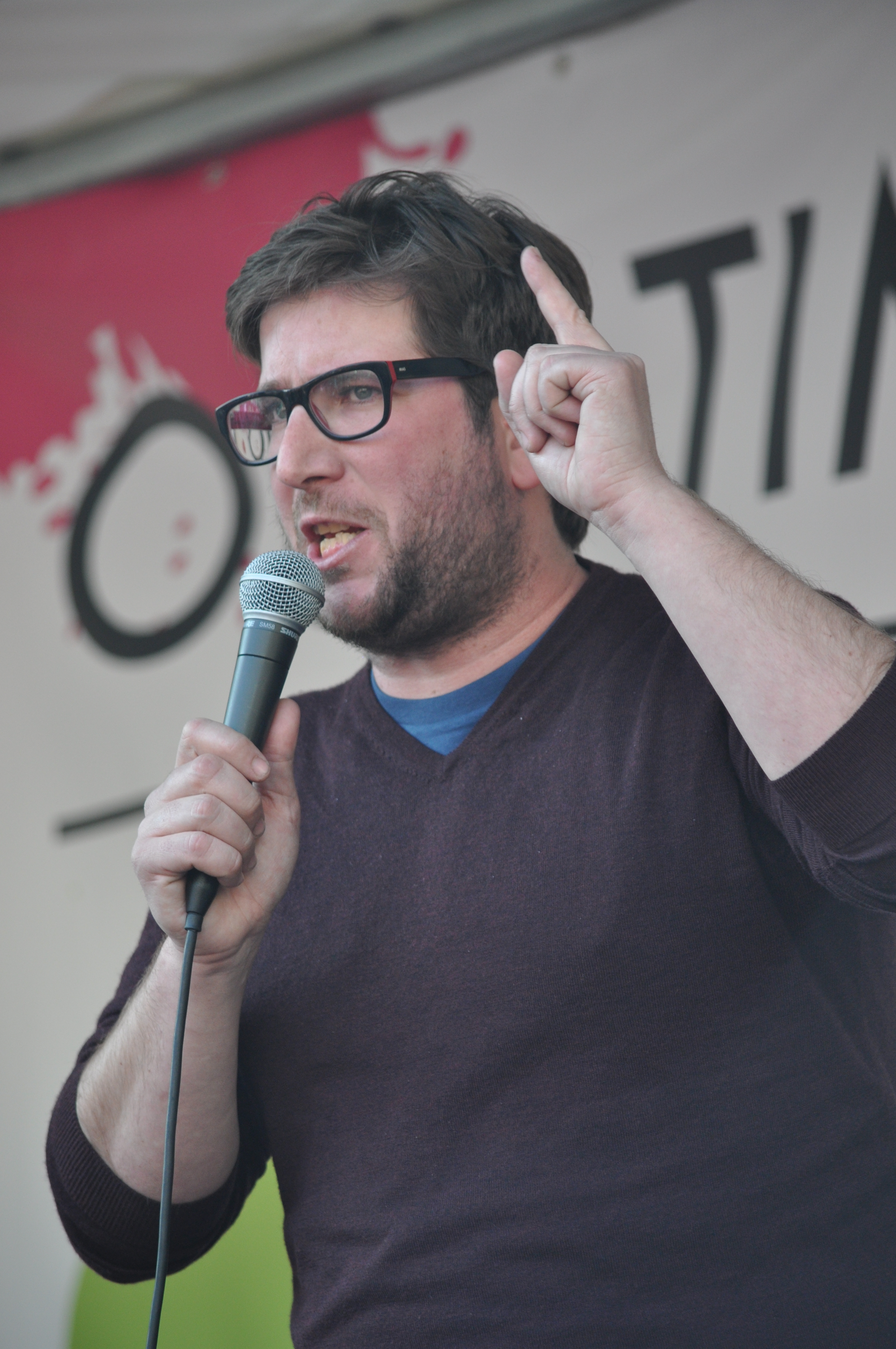 Miguel Urbán at the central meeting of Blockupy in Frankfurt 03/18/2015